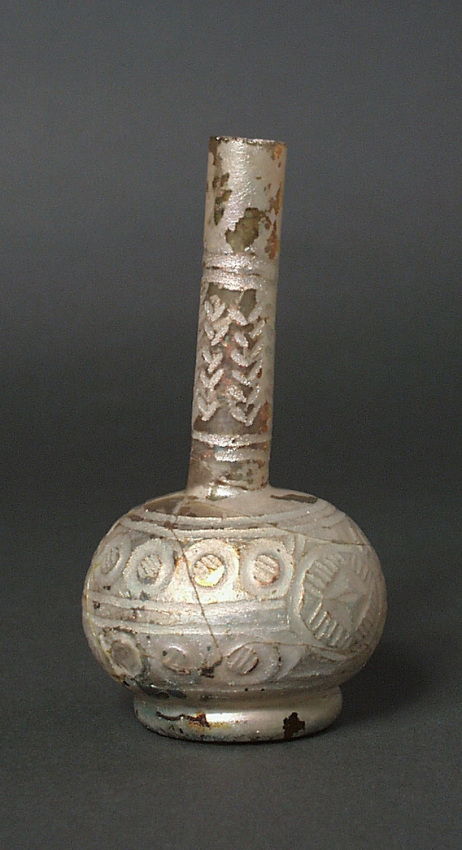 probably Iran, 9th-10th century Furnishings; Accessories Glass, cut Height: 5 3/8 in. (13.65 cm); Body diameter: 2 3/4 in. (6.99 cm) Gift of Varya and Hans Cohn (M.88.129.164) Islamic Art